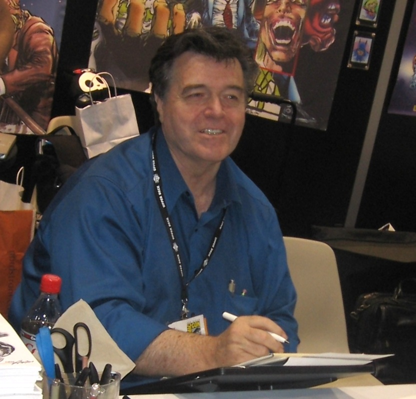 Neal Adams at San Diego Comic-Con International.